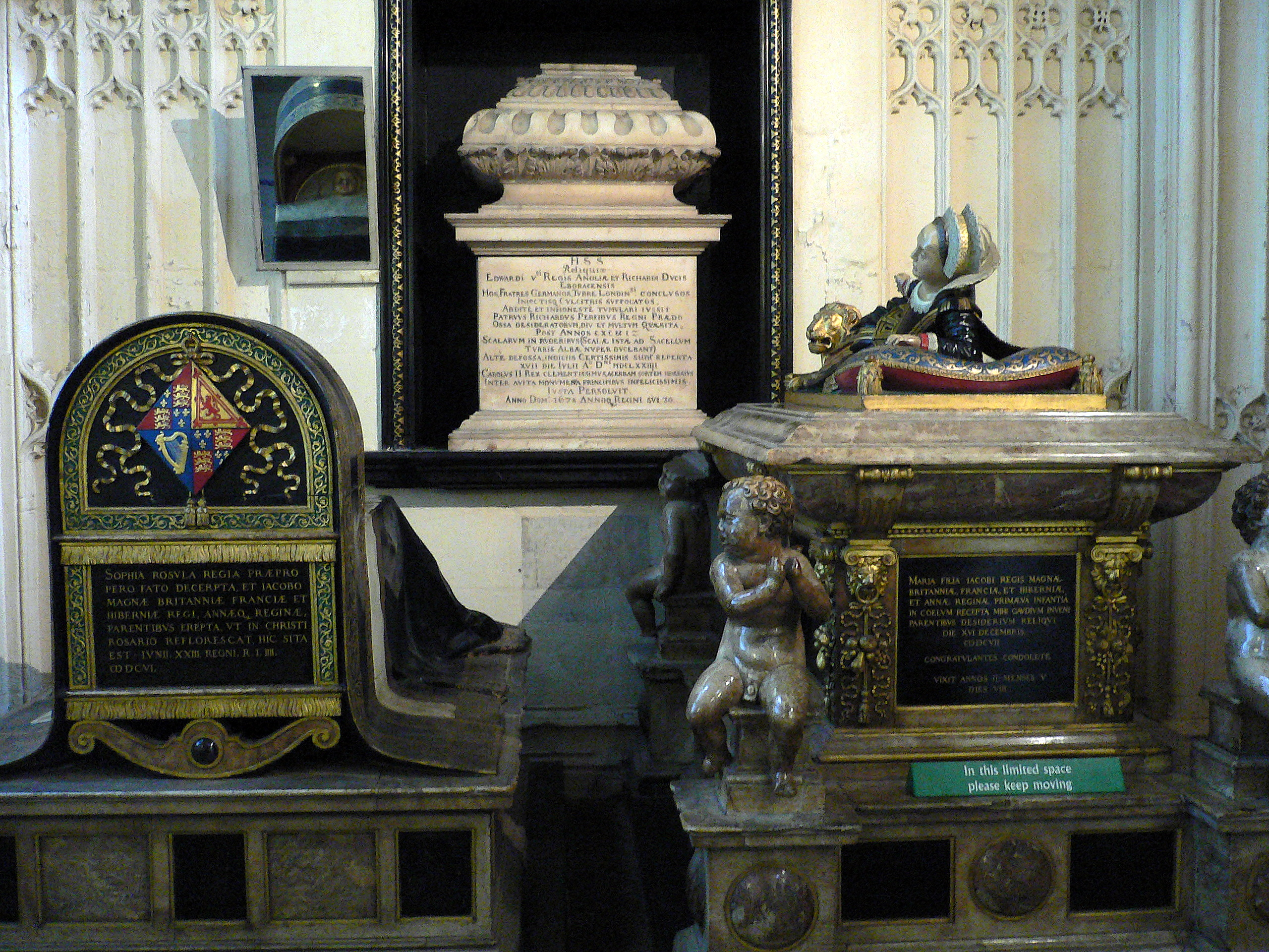 Westminster Abbey, Tombs